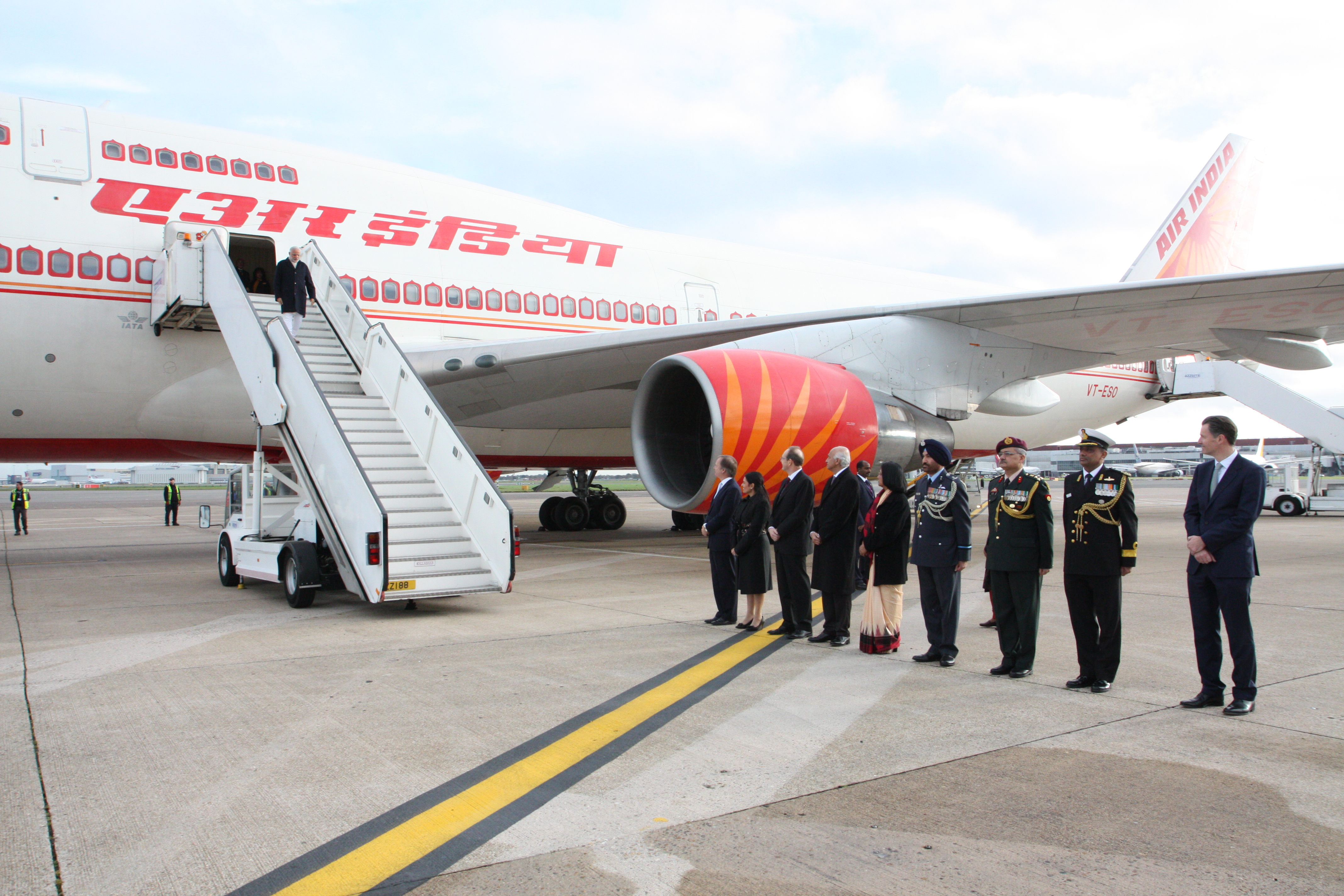 Indian Prime Minister Narendra Modi arrives in London, 12 November 2015.